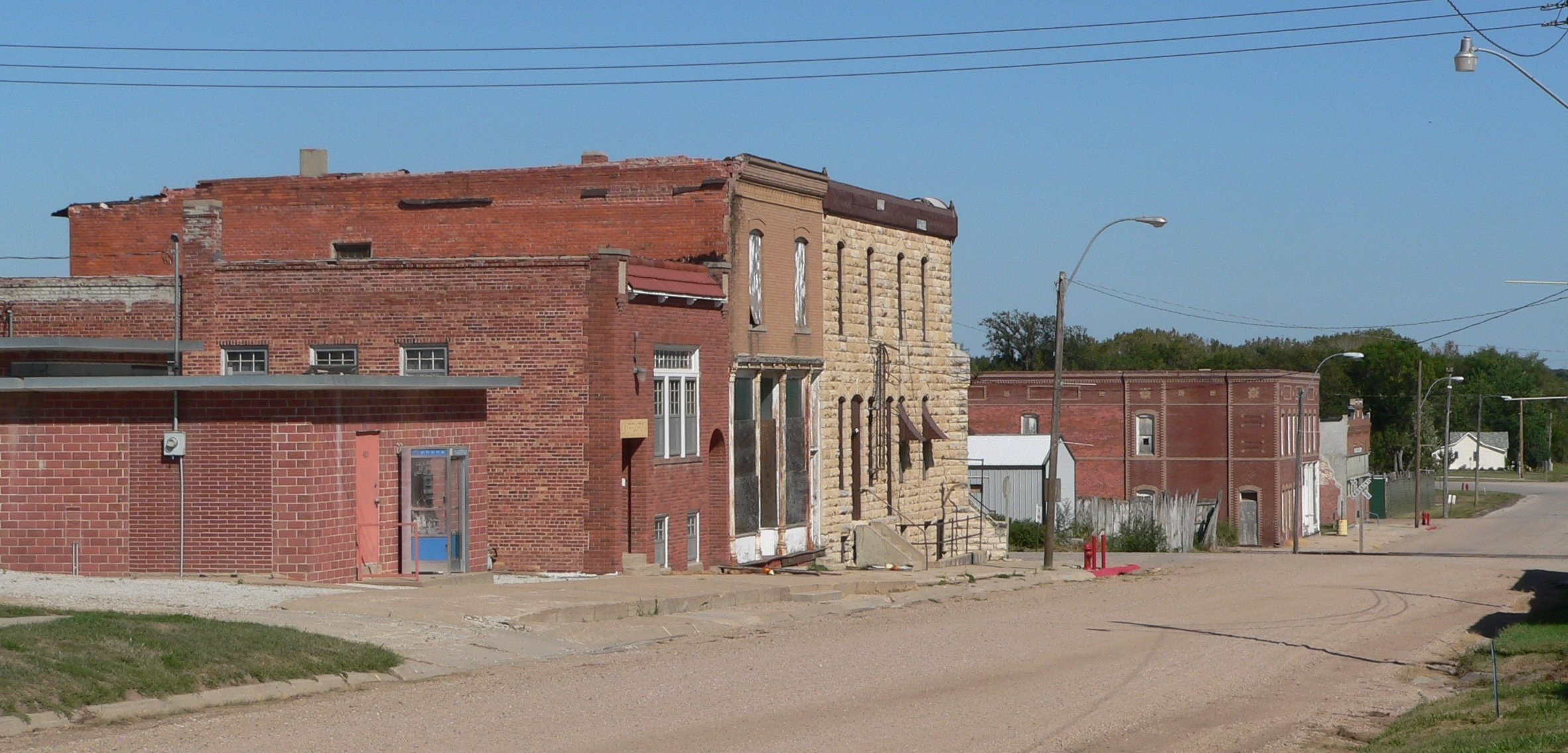 Downtown Ulysses, Nebraska: north side of C Street, looking northeast from about 5th Street.